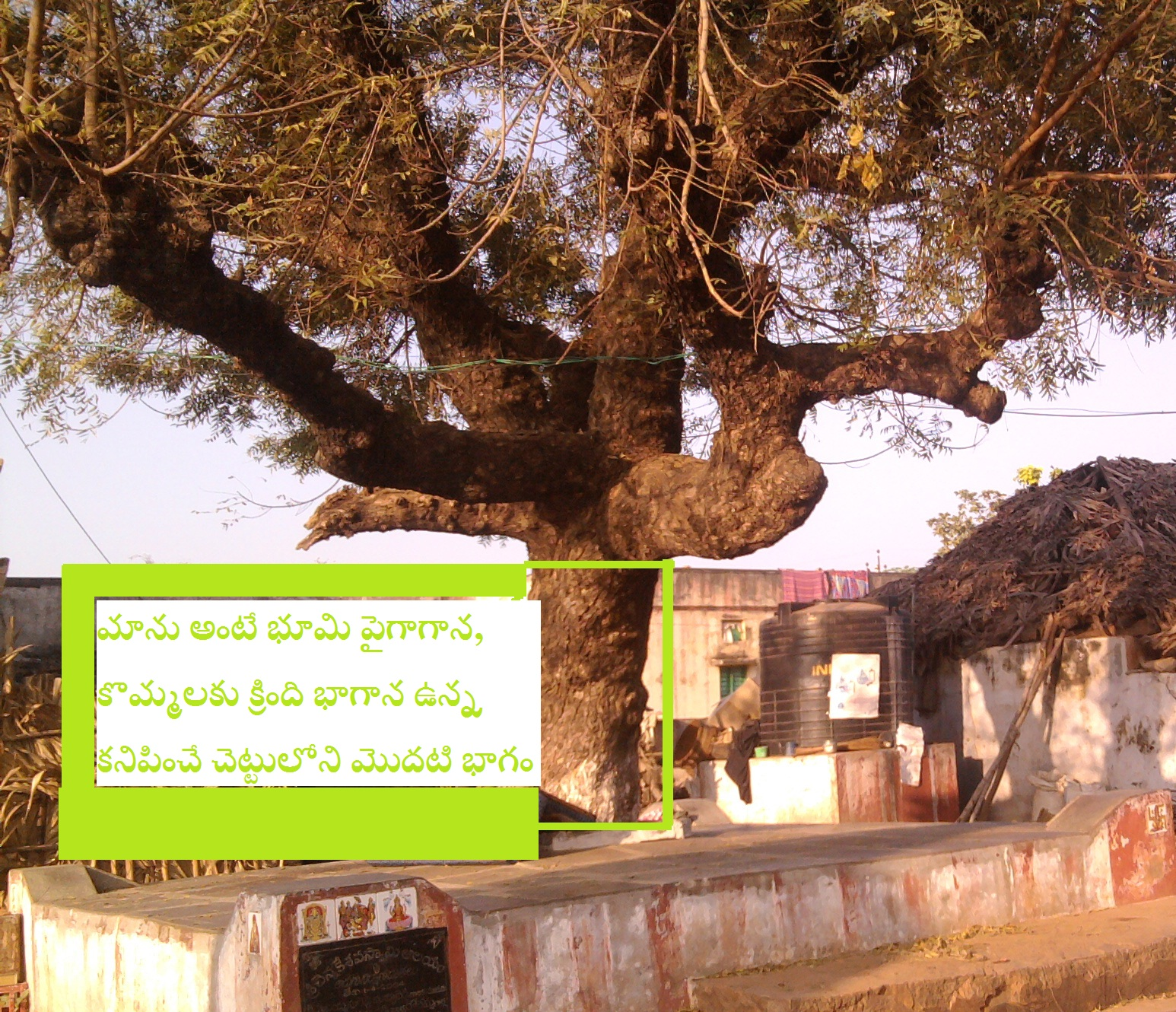 Trunk of Tree